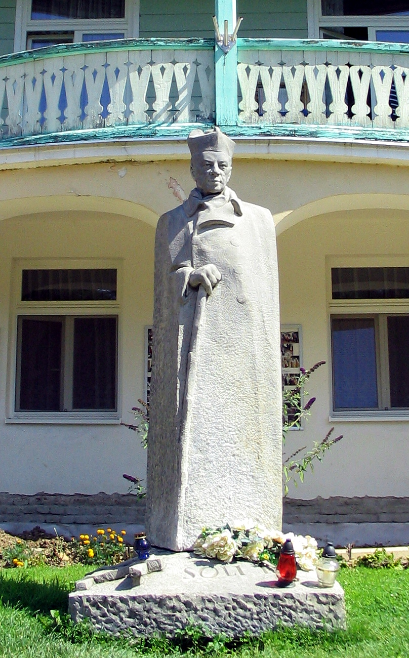 Statue of Stefan Wyszyński in Komańcza, Poland